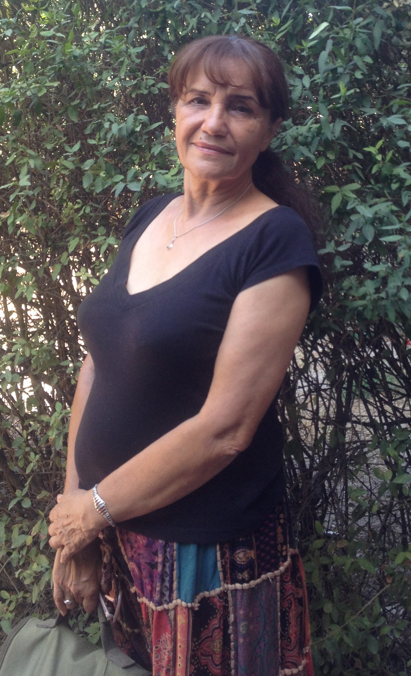 Photographer Umida Akhmedova in 2016 Oʻzbekcha/ўзбекча: Fotograf Umida Ahmedova 2016 yilida